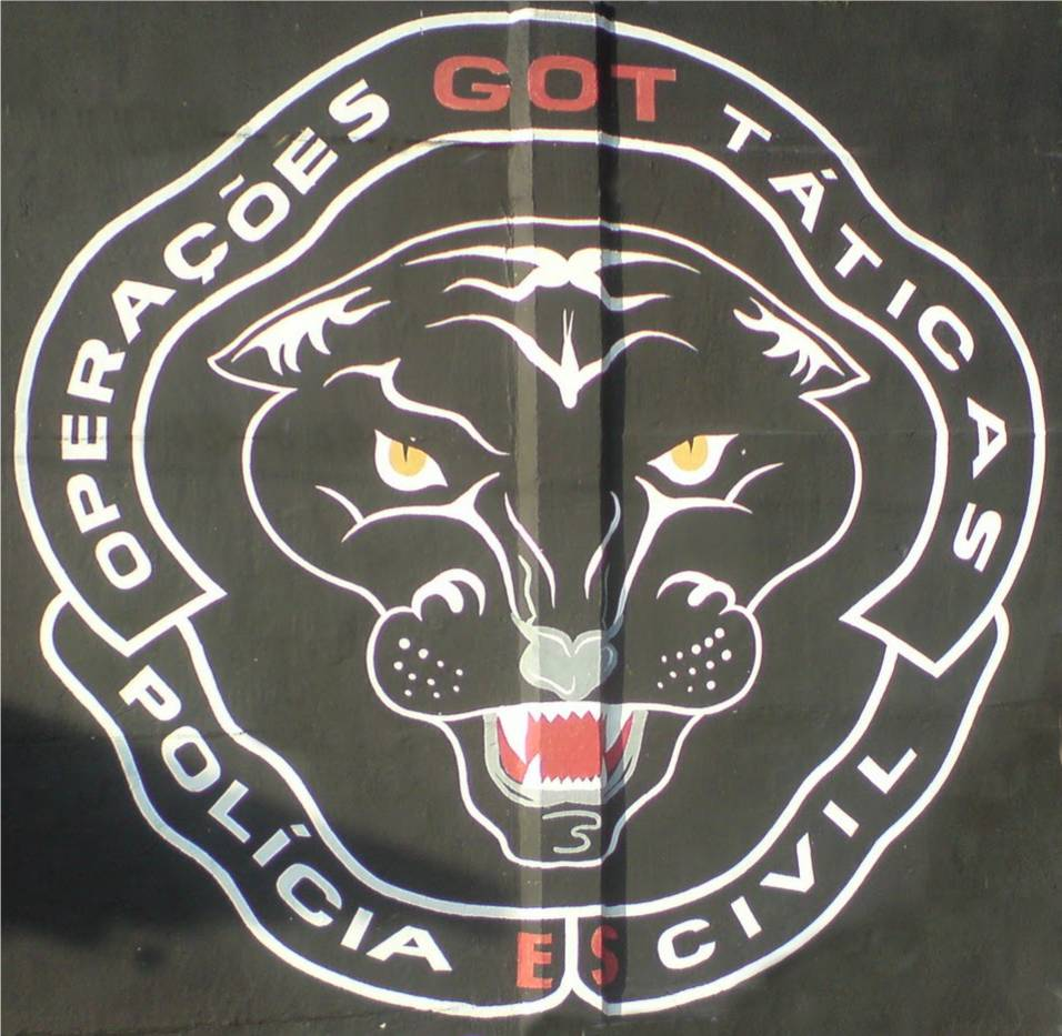 Grupo de Operações Taticas Insignia - Espirito Santo State - Brazil